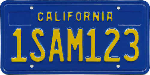 1980 California Sample License Plate